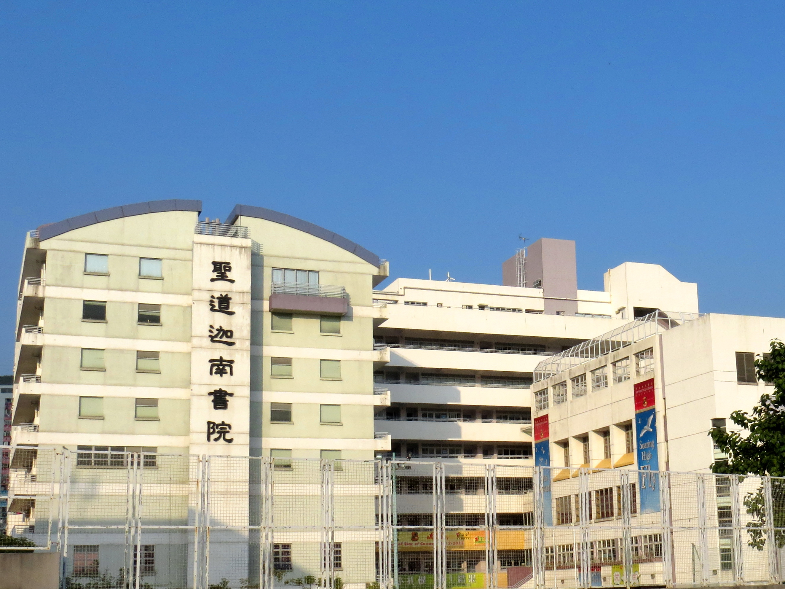 Evangelize China Fellowship (ECF) Saint Too Canaan College, Kwun Tong, Kowloon, Hong Kong.